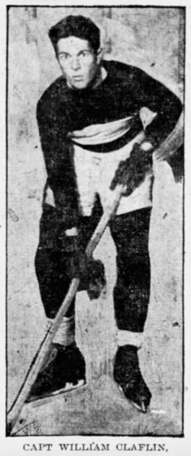 William Henry Claflin Jr. of Harvard Crimson University ice hockey team.